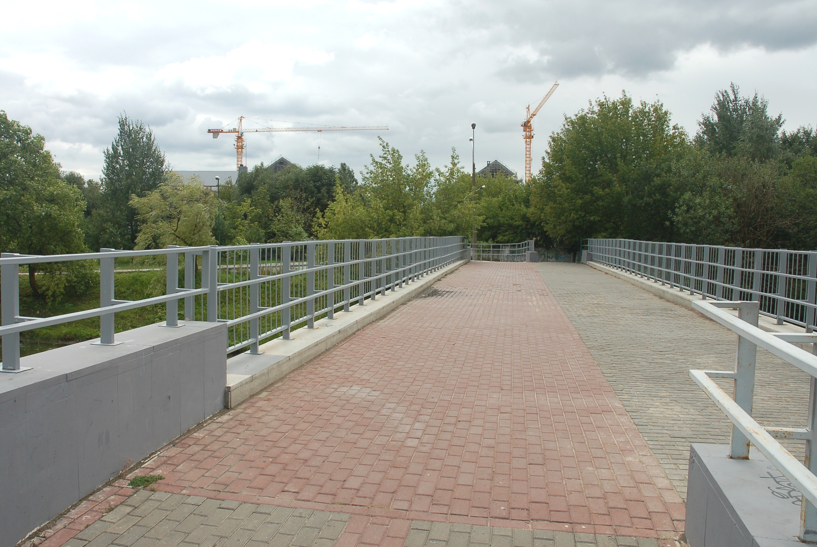 Bridge on the Svislach River, Minsk